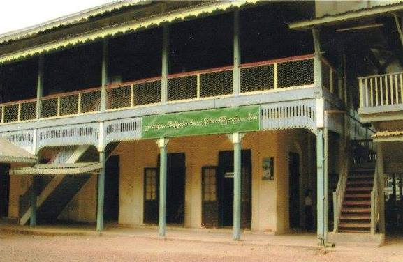 U Thar Nyin Dhamayone building of No.9. Basic Education High School Mawlamyine.